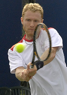 Dmitry Tursunov at the 2008 Rogers Cup